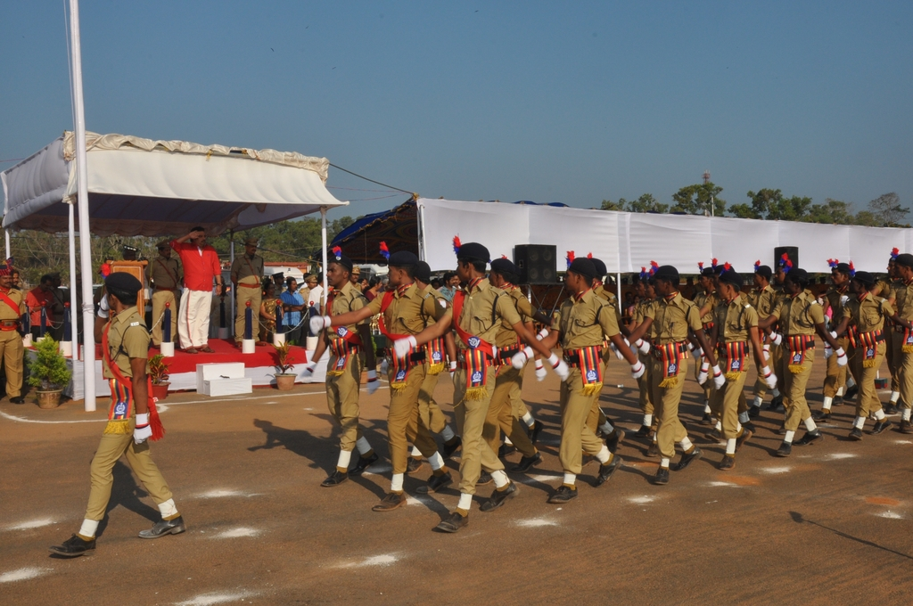 Student police cadet parade